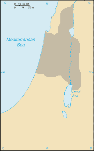 Omride dynasty, durin Omri and Ahab. Based on "The Bible Unearthed" (Finkelstein, Silberman) and "Who Wrote the Bible?" (Friedman). Map from CIA factbook.